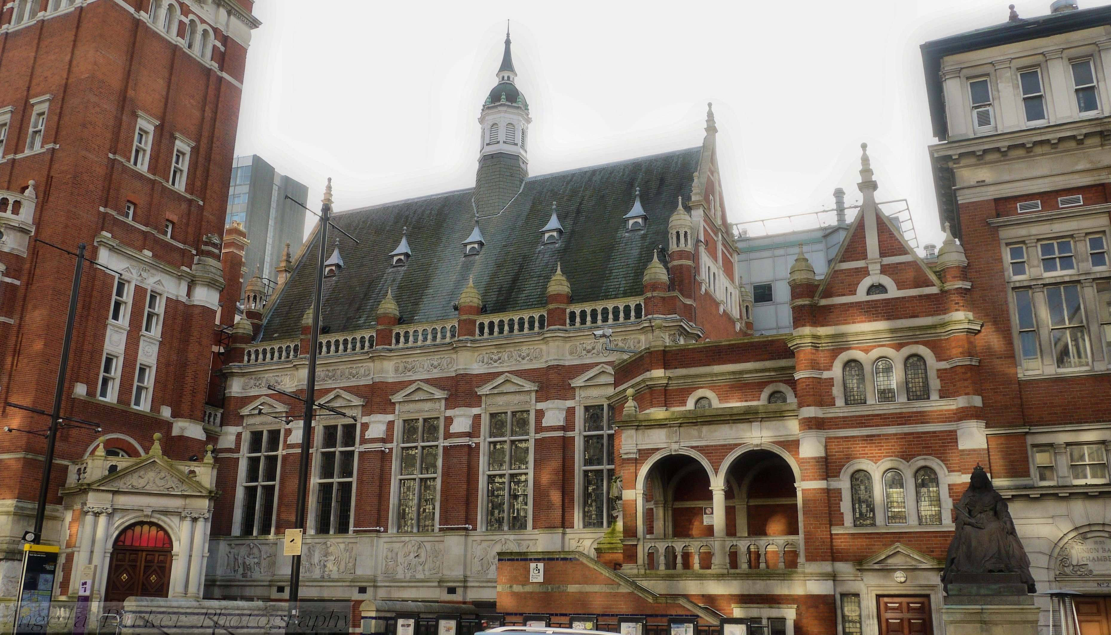 P1490920 The Old Town Hall,Katherine Street.. Croydon..